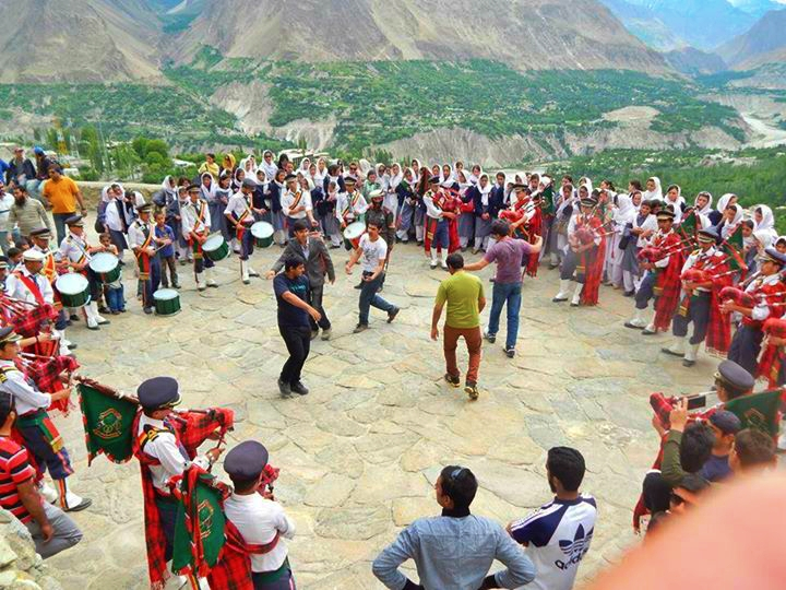 2014 Guest from Swat Valley Enjoying Dance at Baltit Fort